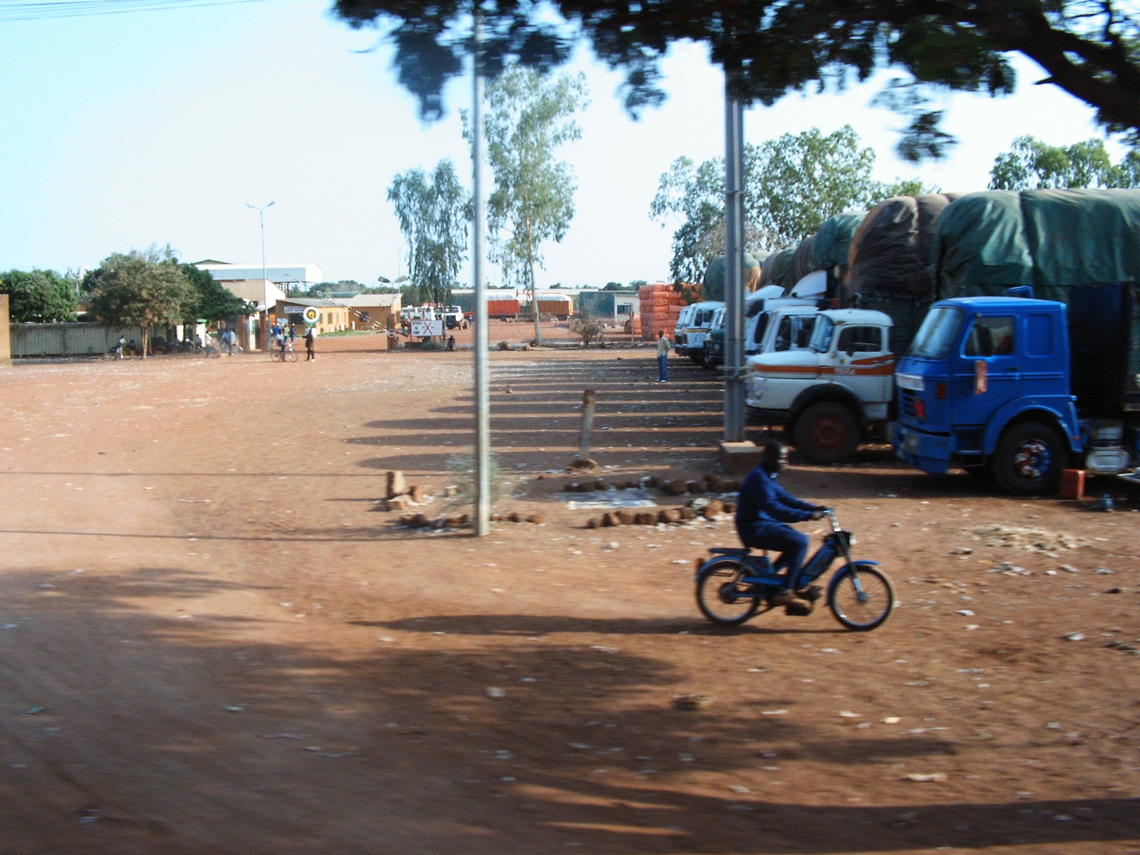 Packing cotton in Dedougou, Burkina Faso picture taken by author